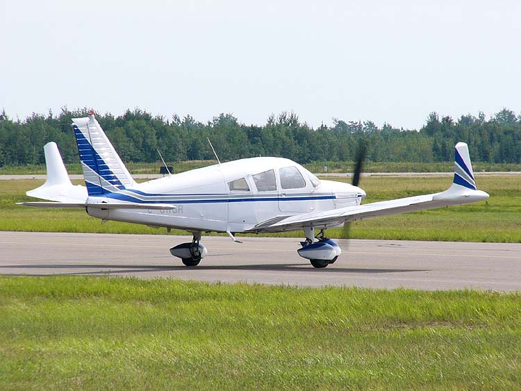 A Piper PA-28 Cherokee with huge winglets installed